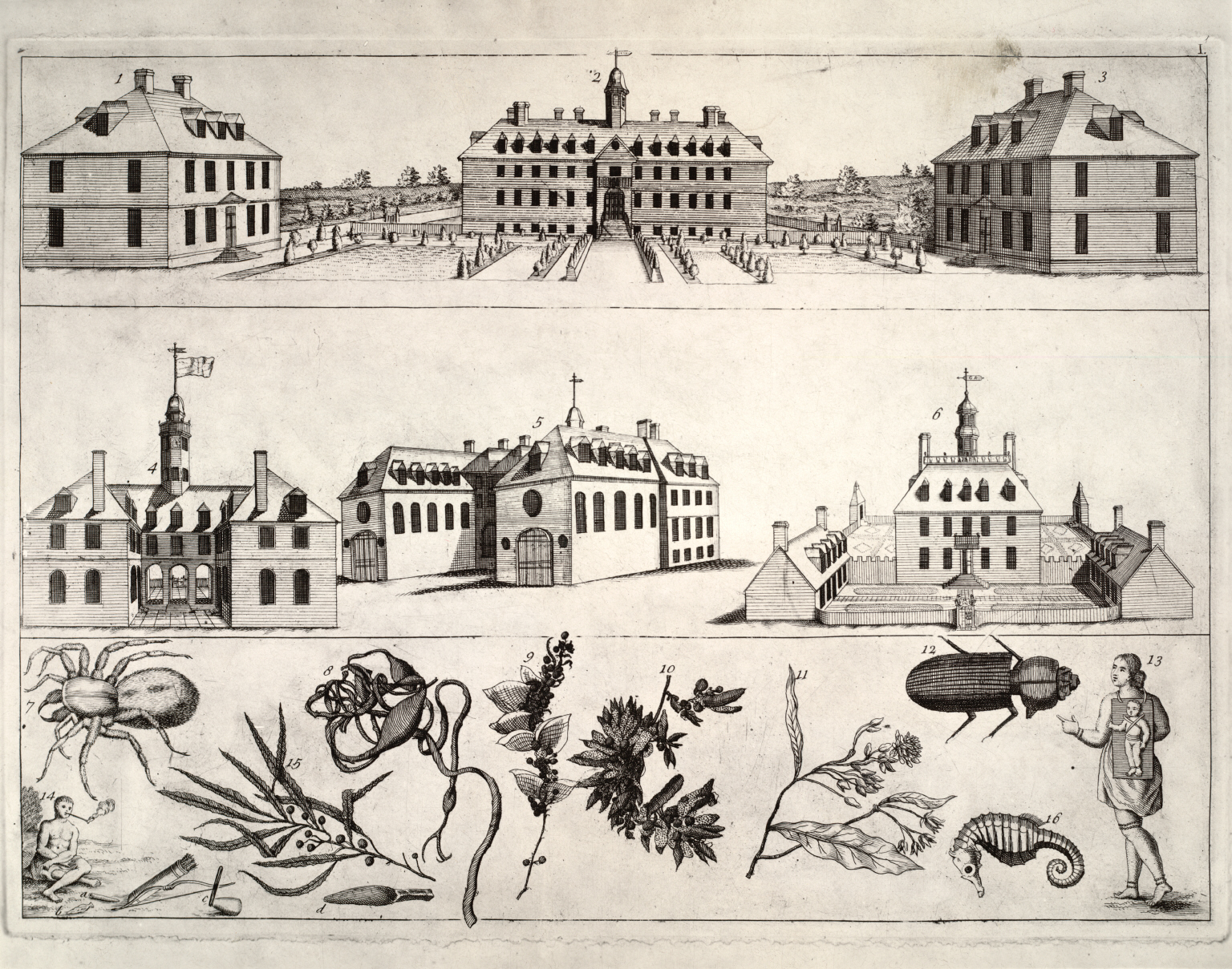 Print of the Bodleian Plate, depicting the colonial architecture of Williamsburg, Virginia. The plate, discovered in the Bodleian Library at Oxford, was critical to the reconstruction of Williamsburg in the early-mid 20th century. Collection: A. D. White Architectural Photographs, Cornell University Library Accession Number: 15/5/3090.00557 Title: College of William and Mary Map date: ca. 1781-ca. 1782 Photograph date: ca. 1935 Location: North and Central America: United States; Virginia, Williamsburg Materials: gelatin silver print Image: 7 x 9 1/4 in.; 17.78 x 23.495 cm Provenance: Transfer from the College of Architecture, Art and Planning Persistent URI: There are no known U.S. copyright restrictions on this image. The digital file is owned by the Cornell University Library which is making it freely available with the request that, when possible, the Library be credited as its source. We had some help with the geocoding from Web Services by Yahoo!